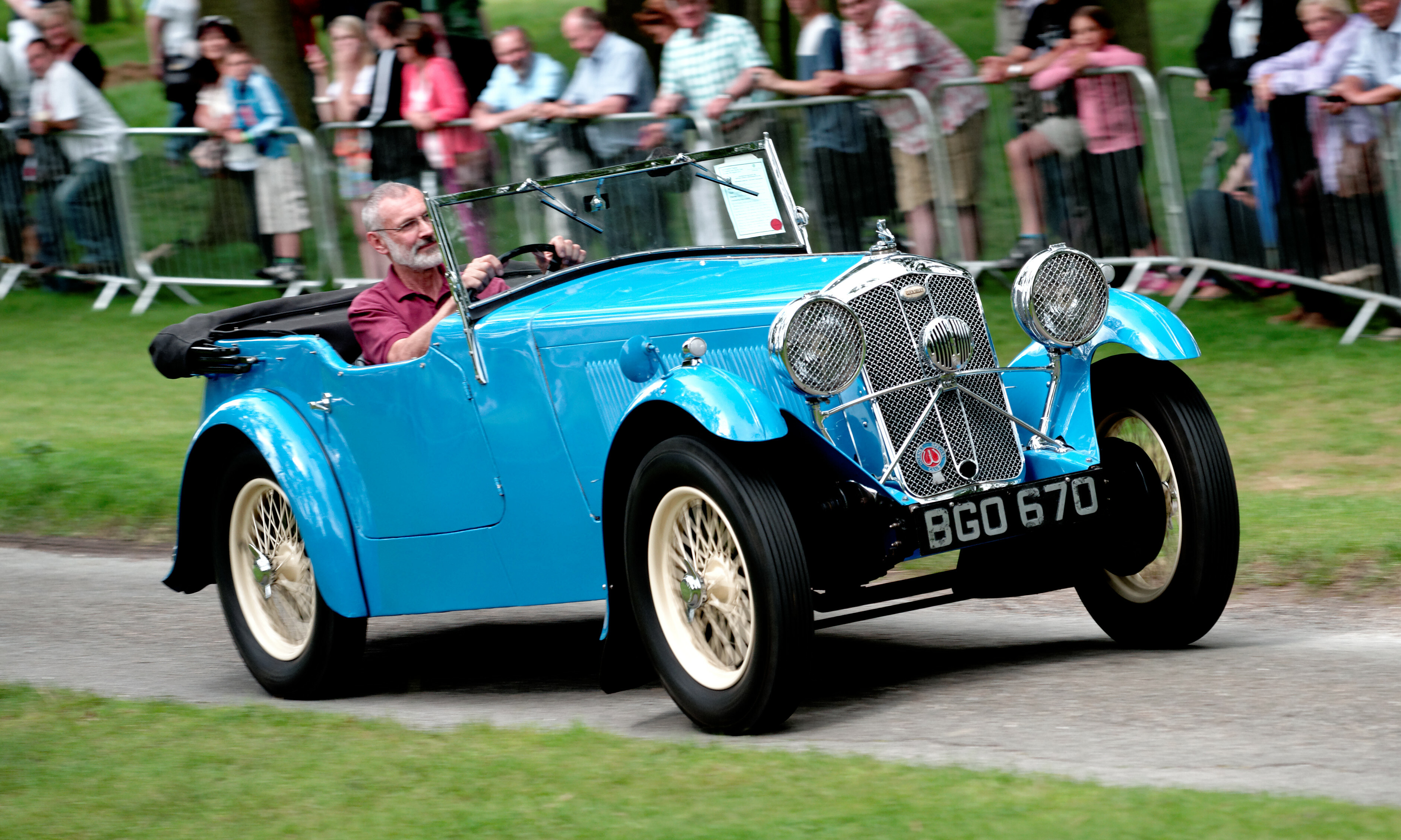 Wolseley Hornet 1934(DVLA) first registered 3 August 1934, 1604cc